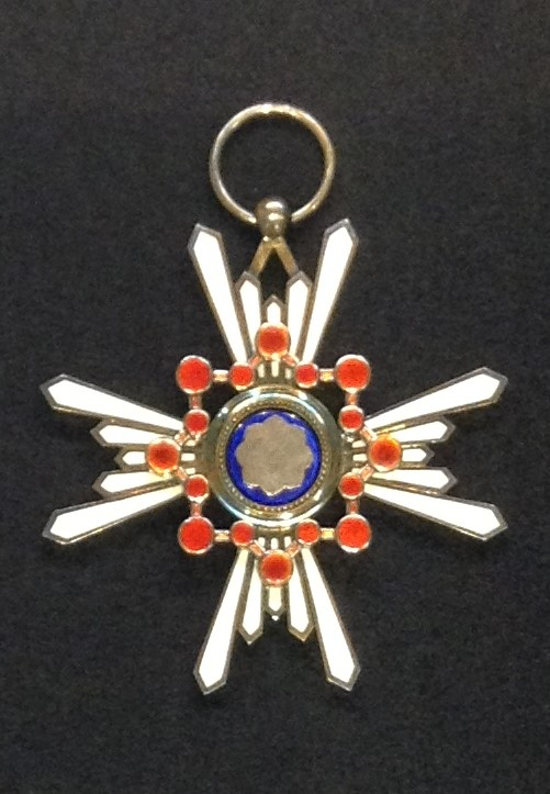 Grand Cordon of the Order of the Sacred Treasure